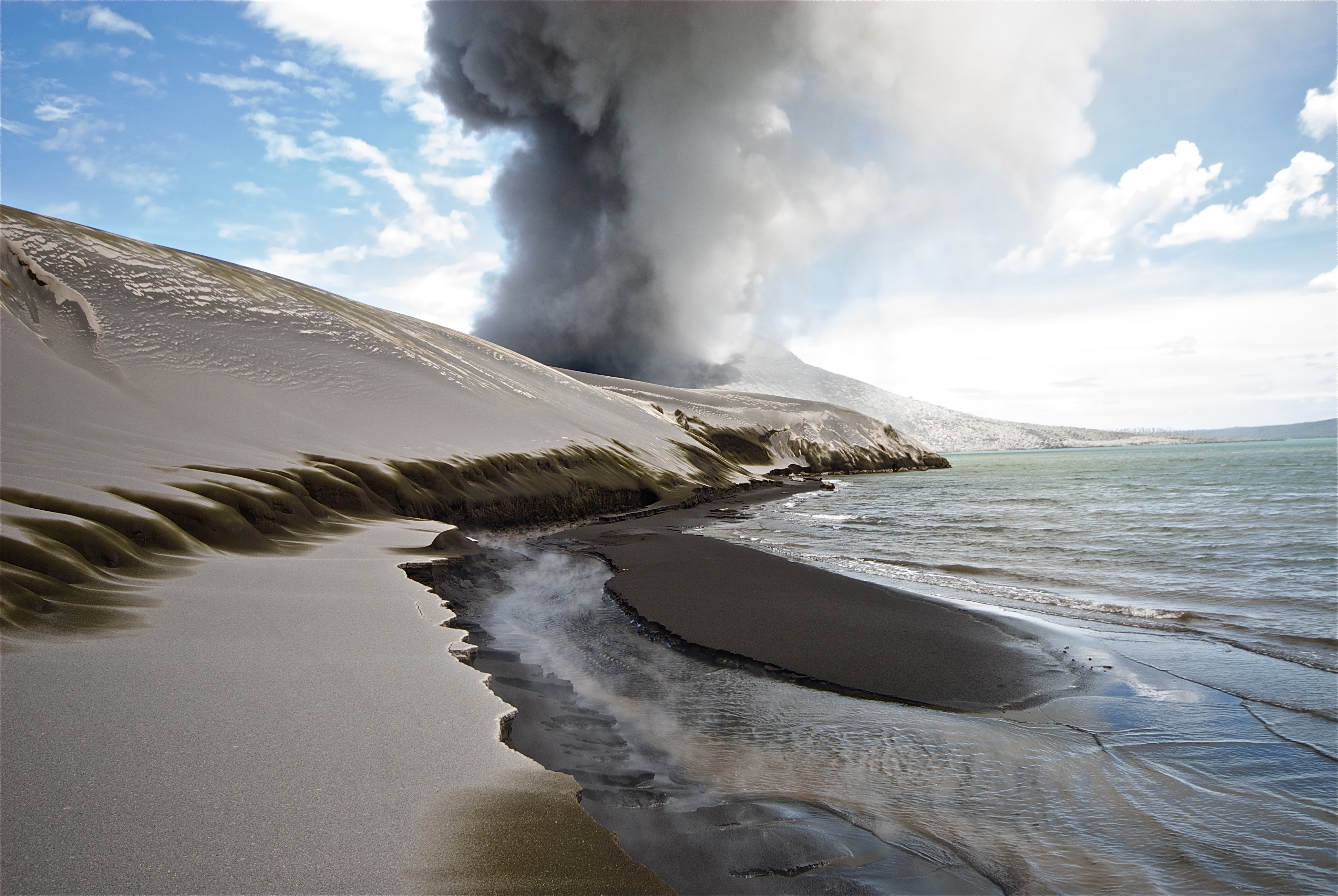 Volcanic Ash Dunes of Tarvurvur, Rabaul, Papua New Guinea.